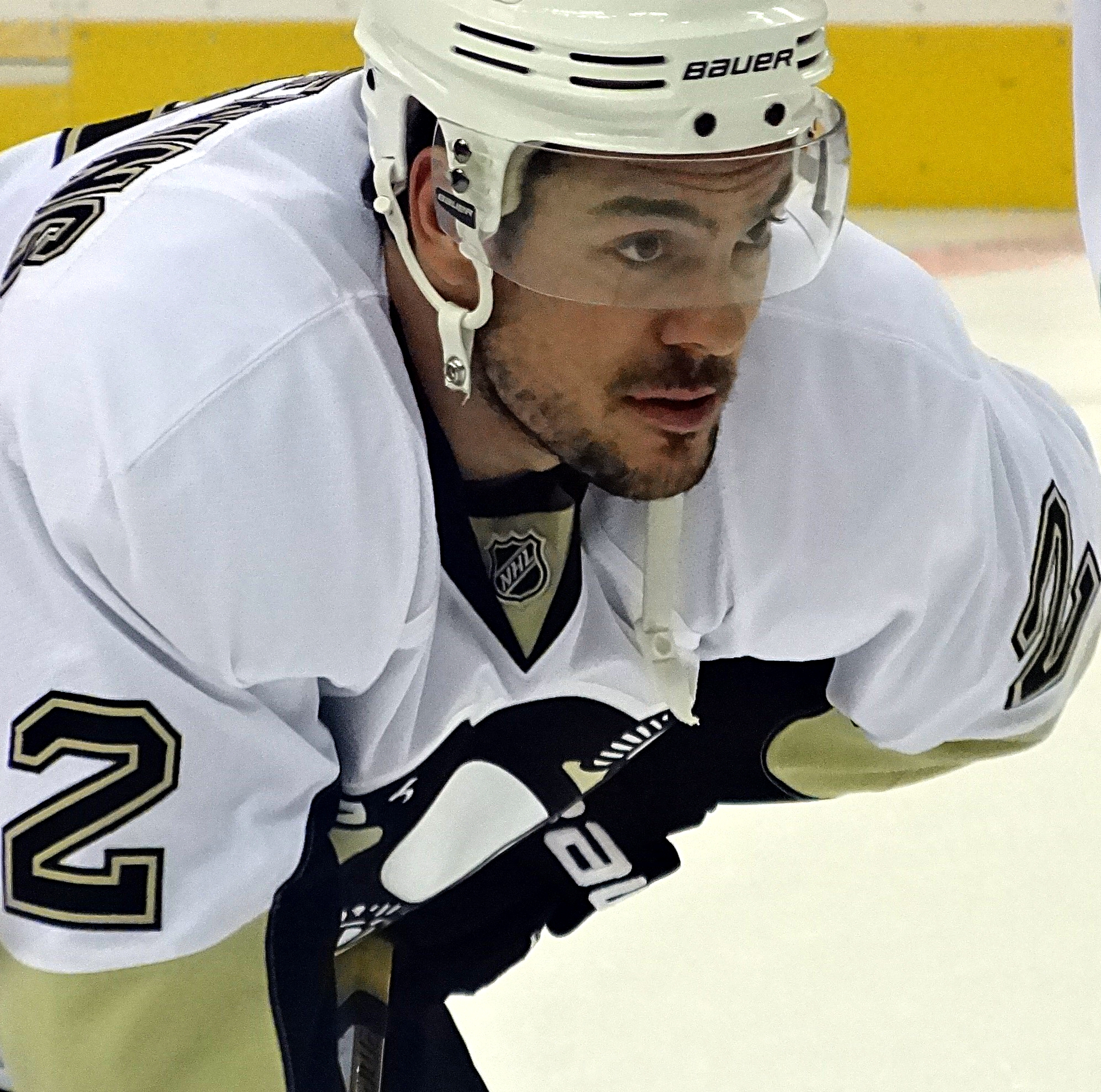 Pittsburgh Penguins defenseman Adam Clendening warms up prior to a game against the Washington Capitals, October 28, 2015, at Verizon Center in Washington, D.C.